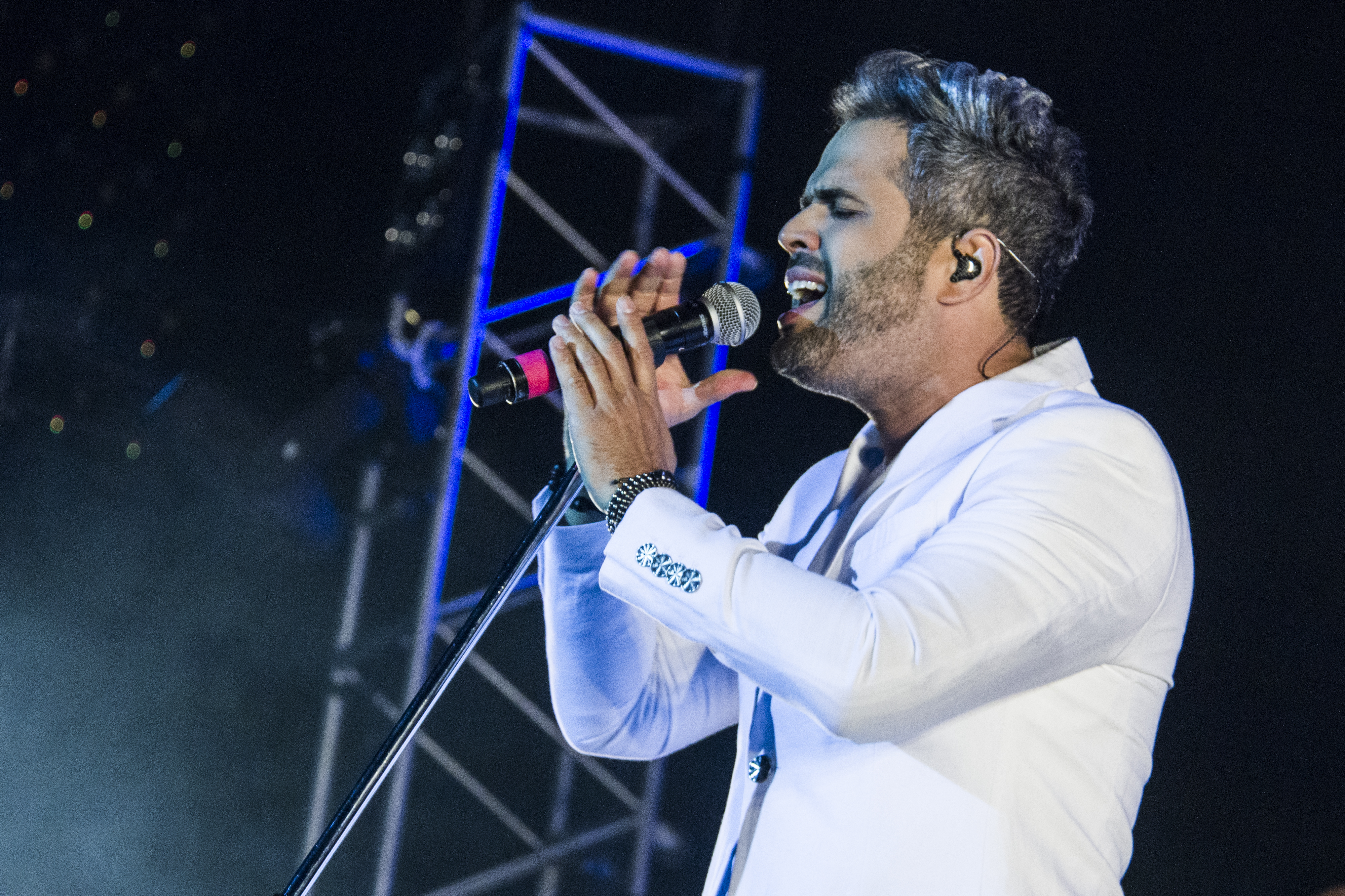 Daniel Santacruz at the Luna Park 2015